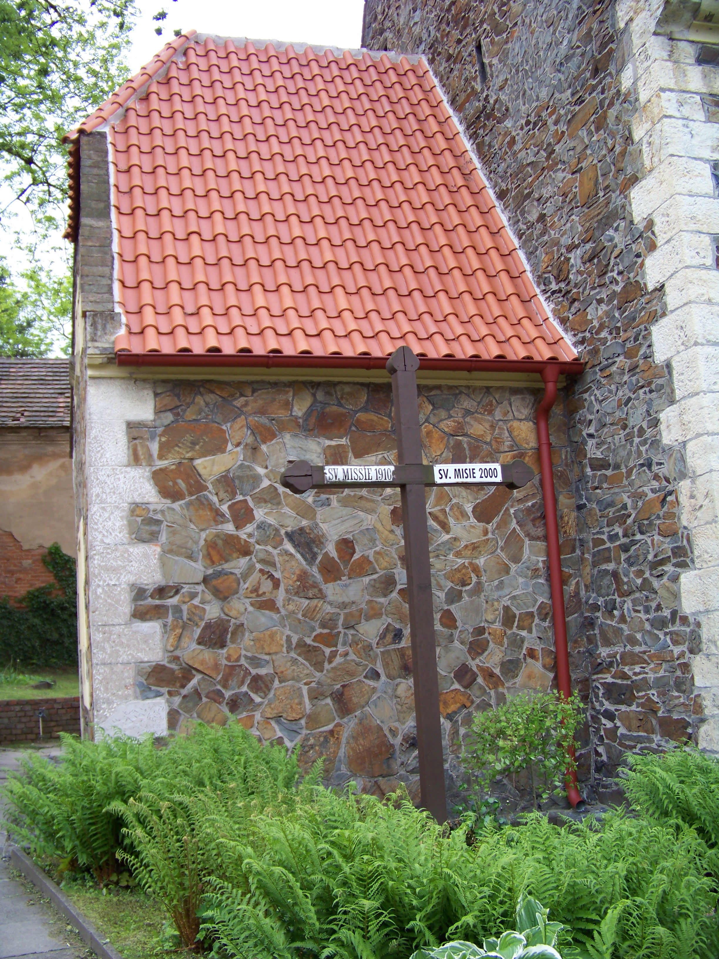 Petrovice, Prague, the Czech Republic. Edisonova street, the church of Saint James.